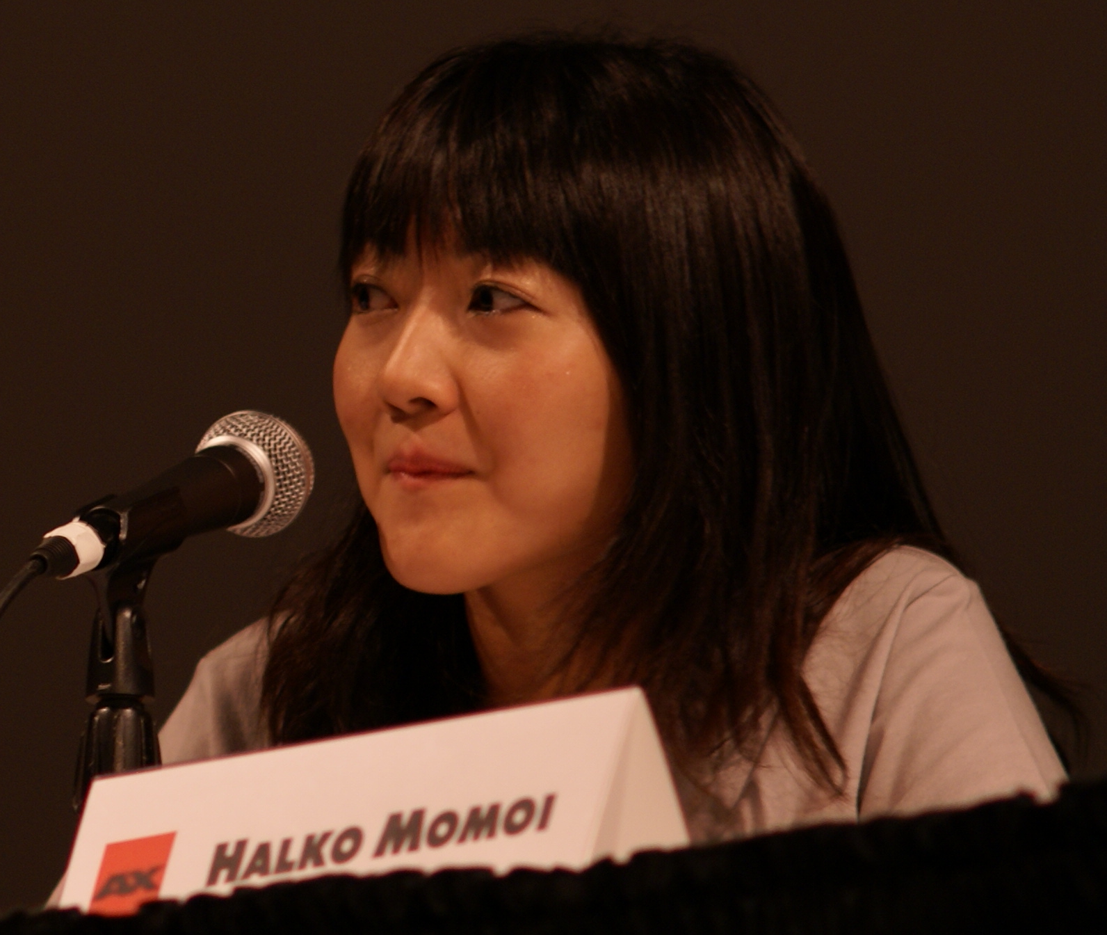 Haruko Momoi (Halko Momoi) is a Japanese voice actress and singer/songwriter. At Anime Expo 2007.